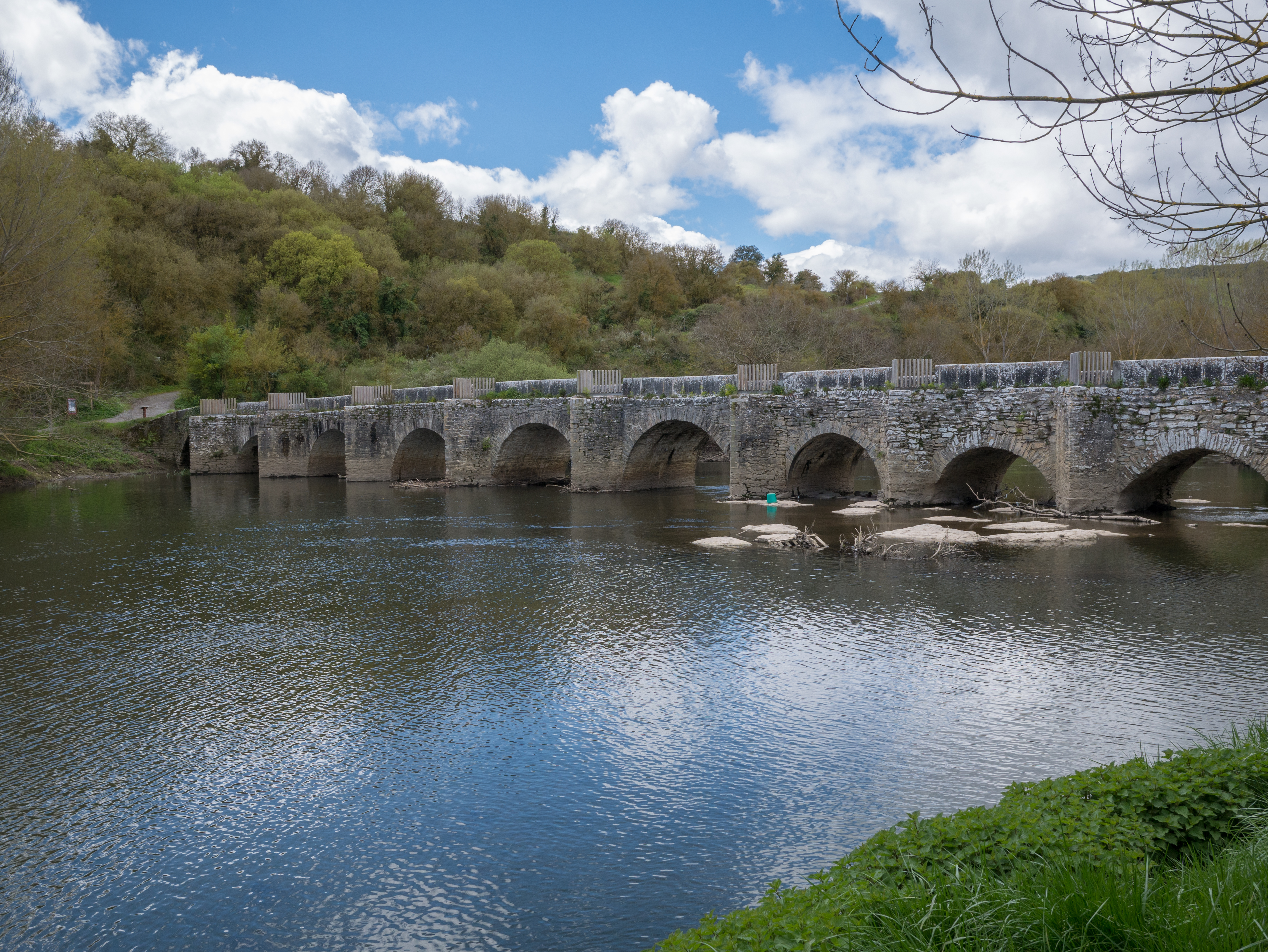 Bridge in Tres Puentes. Iruña de Oca, Álava, Basque Country, Spain